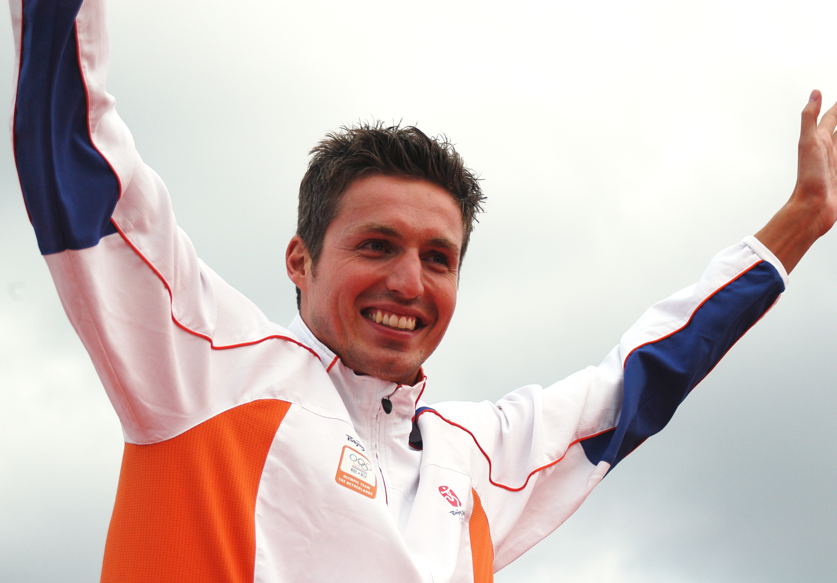 Pieter van den Hoogenband at the Olympic welcome in the Olympic Stadium in Amsterdam, the Netherlands